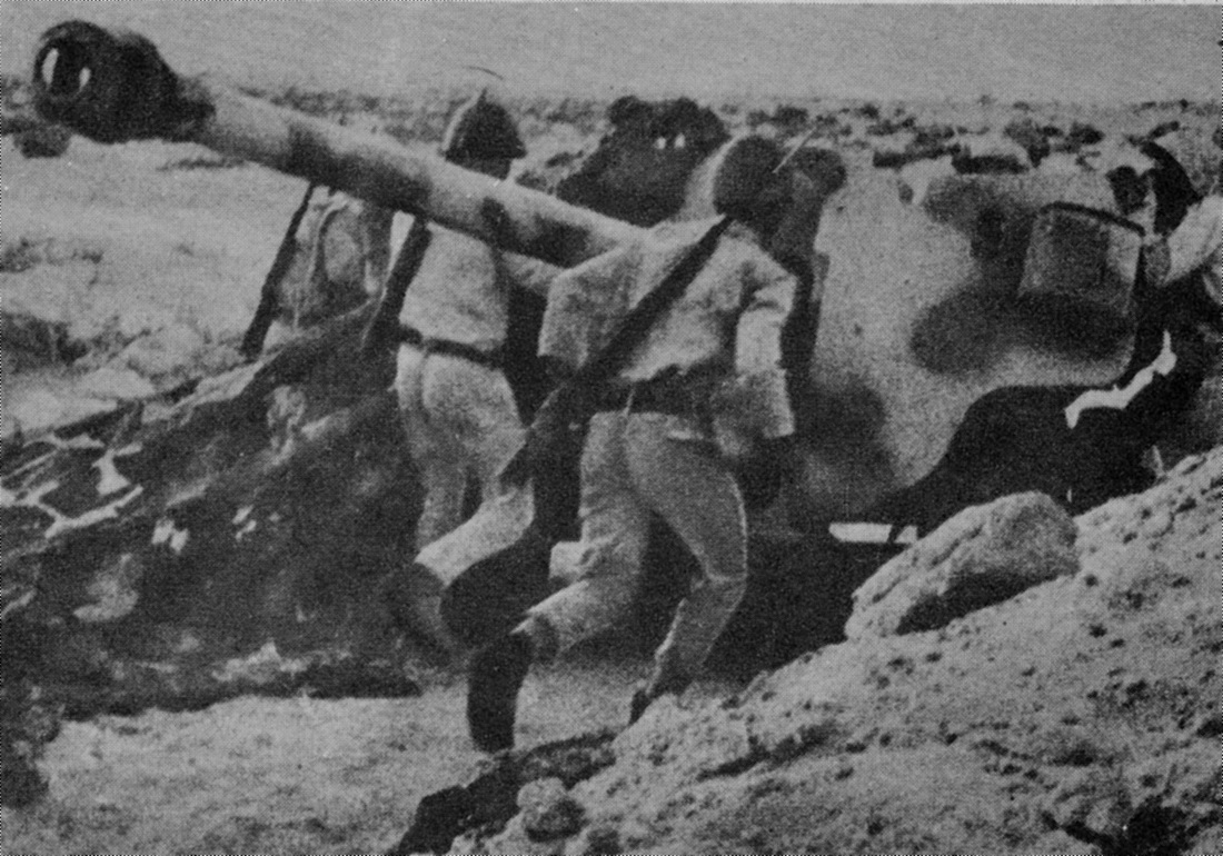 Egyptian tanks on the move in the Sinai desert, during the Yom Kippur War.